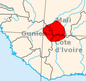 I created this, using the Gimp, and a blank area map from Wikpedia Commons, 2007-07-23. Area map of the Wassoulou (Wassulu, Wassalou, Ouassalou) region of Mali, Guinea (Guinee), Cote d'Ivoire: West Africa.